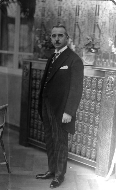 Prime Minister İsmet İnönü in 1930s.